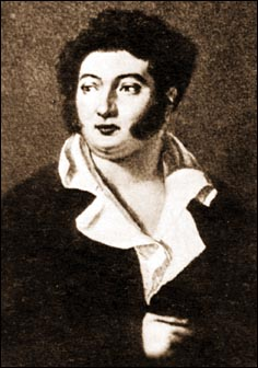 Count Feodor Ivanovich Tolstoy